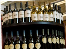 Monarch Wine